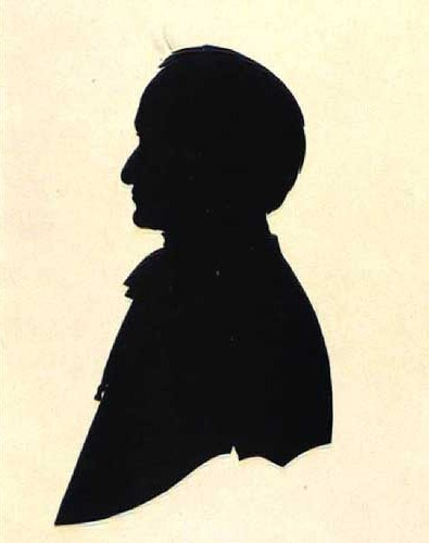 Matthias Hagen Hohlenberg (1797-1845), Danish Professor of Theology